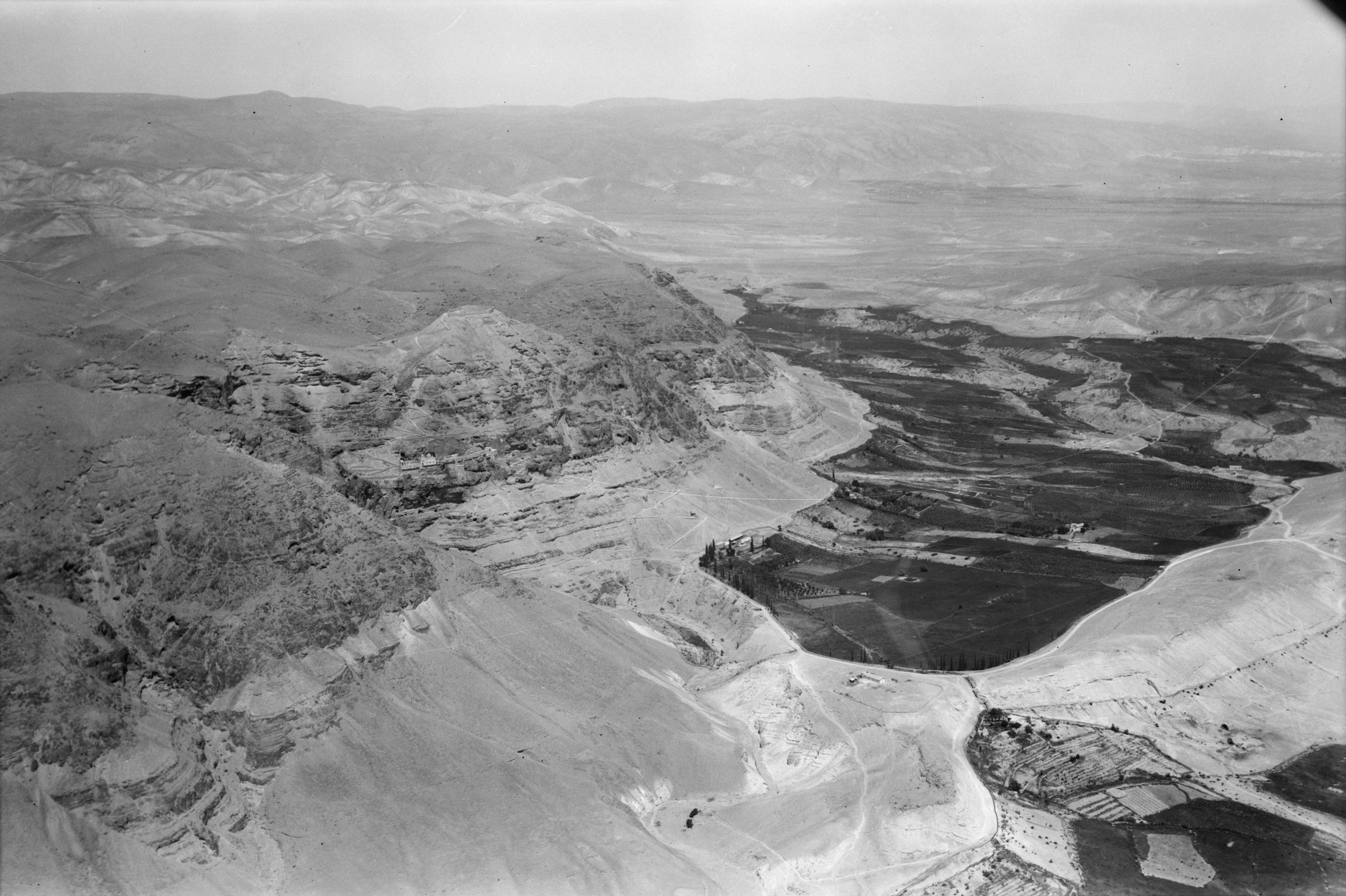 Title: Air views of Palestine. Air route following the old Jerusalem-Jericho Road. Mount of Temptation and gardens of Ain Duke. Western edge of Jericho plain Abstract/medium: G. Eric and Edith Matson Photograph Collection Physical description: 1 negative